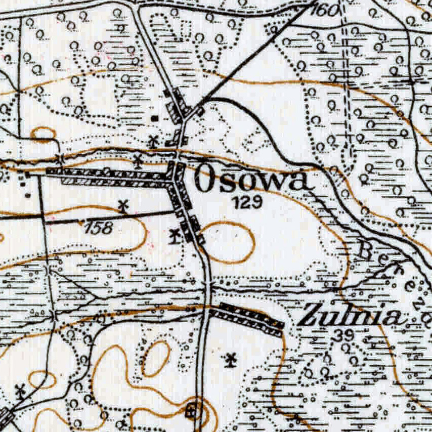 Osova on the map "Karte des Westlichen Russlands", T 36, 1917. According to Kujawsko-Pomorska Digital Library the map is in the public domain.